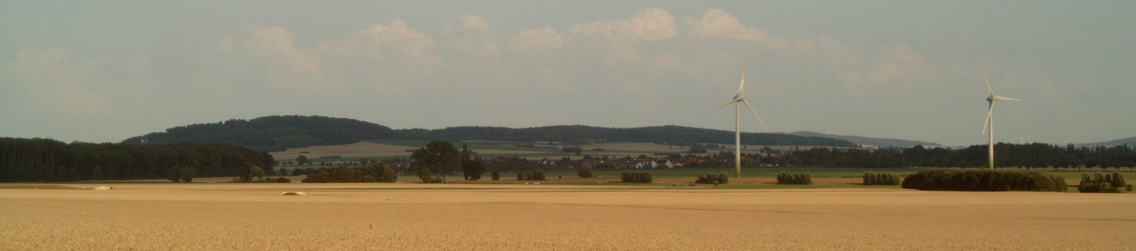 mountain "Gehrdener Berg", west side